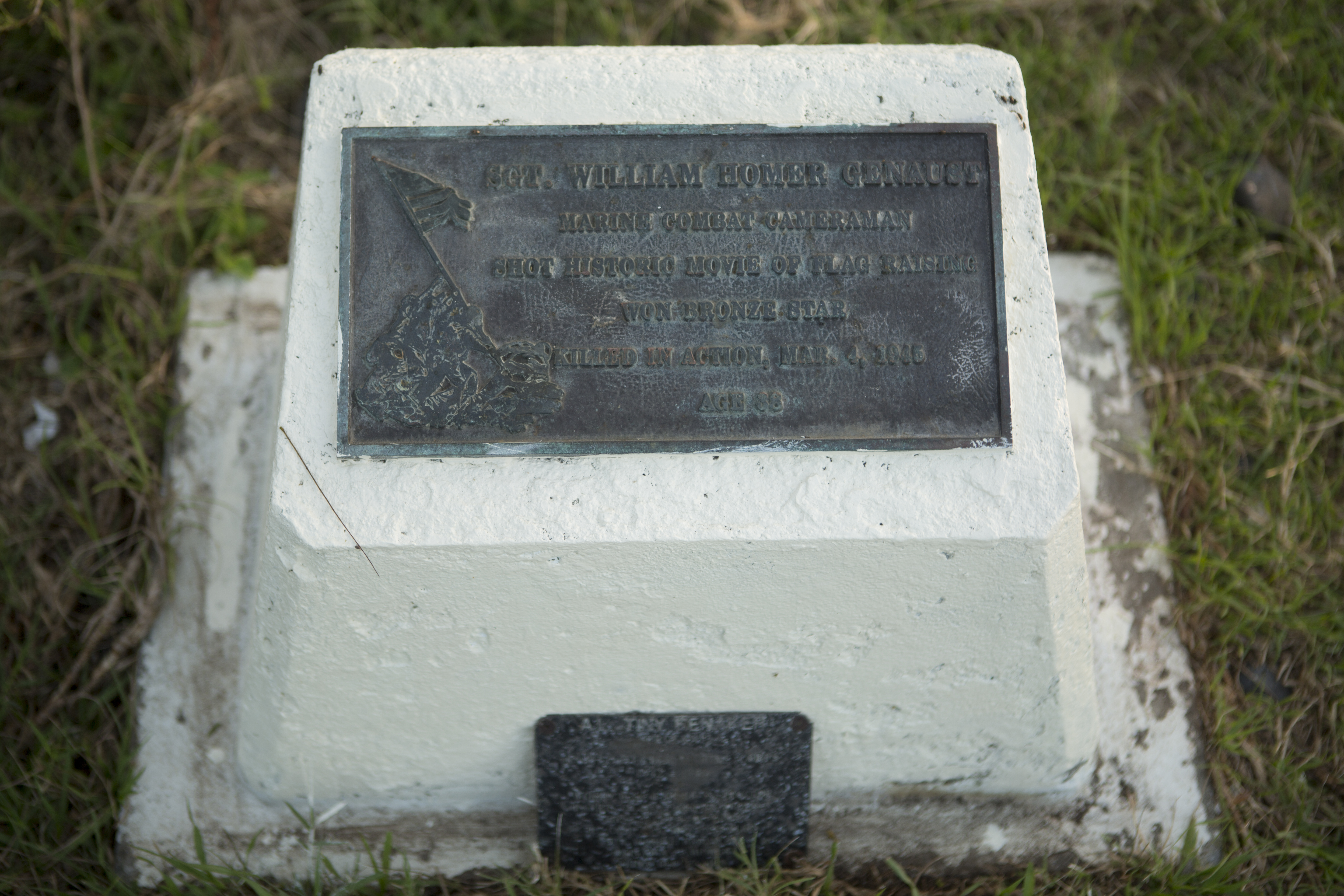 Photograph of a bronze memorial plaque for war photographer Bill Genaust at the Mount Suribachi Memorial The Legacy of Iwo Jima — A small memorial on top of Mount Suribachi, Iwo To, Japan, states "Sgt. William Homer Genaust, Marine Combat Cameraman." Genaust was the videographer who captured the famous flag-raising video footage at the mountain's summit on Feb. 23, 1945, and was killed in action during the Battle of Iwo Jima March 4, 1945. The 73rd Reunion of Honor ceremony, held March 24, 2018 at Iwo To, formerly known as Iwo Jima, commemorated those who fought and died during the Battle of Iwo Jima.